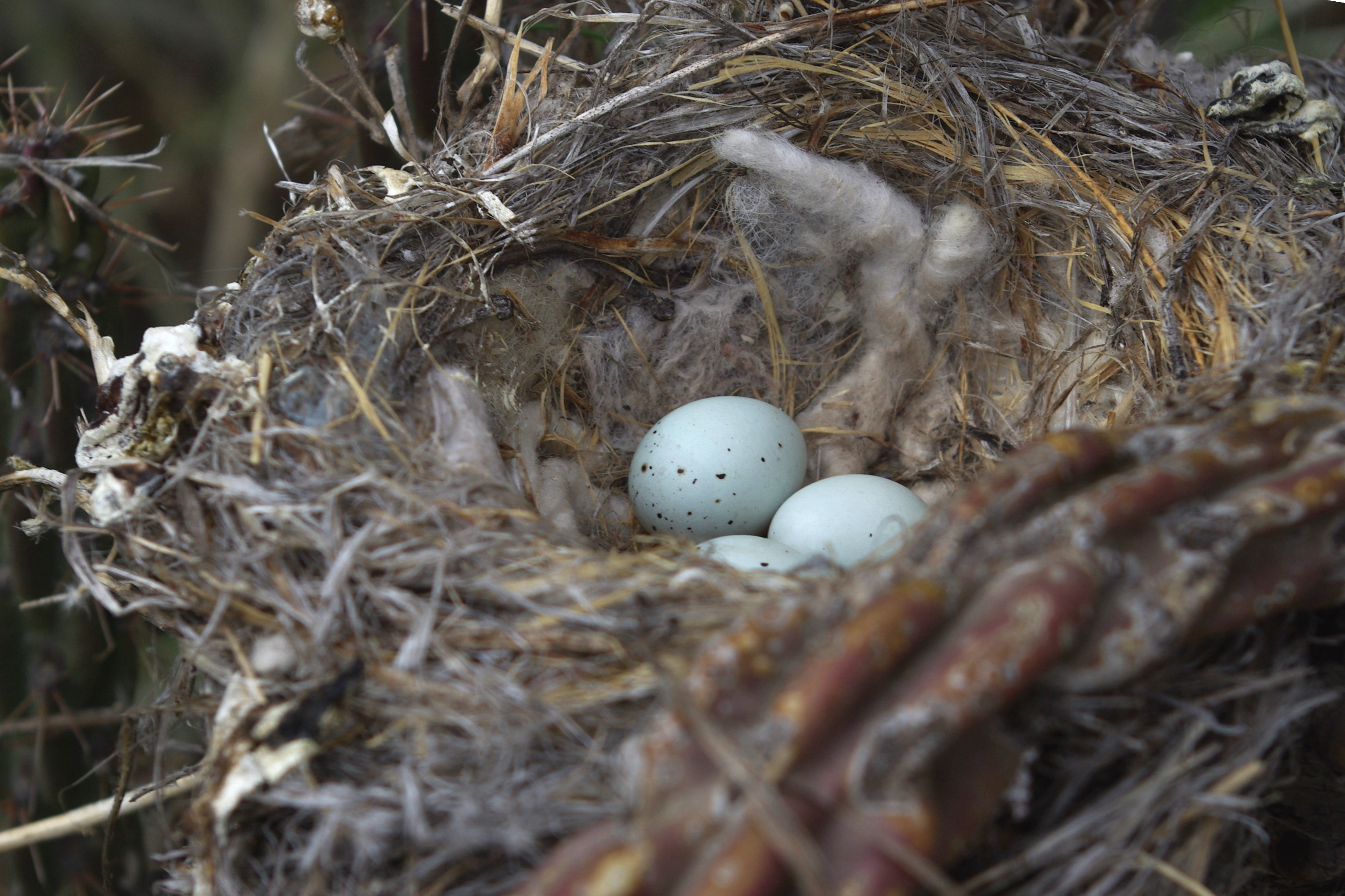 Nest and eggs of House Finch, Carpodacus mexicanus, Española, New Mexico